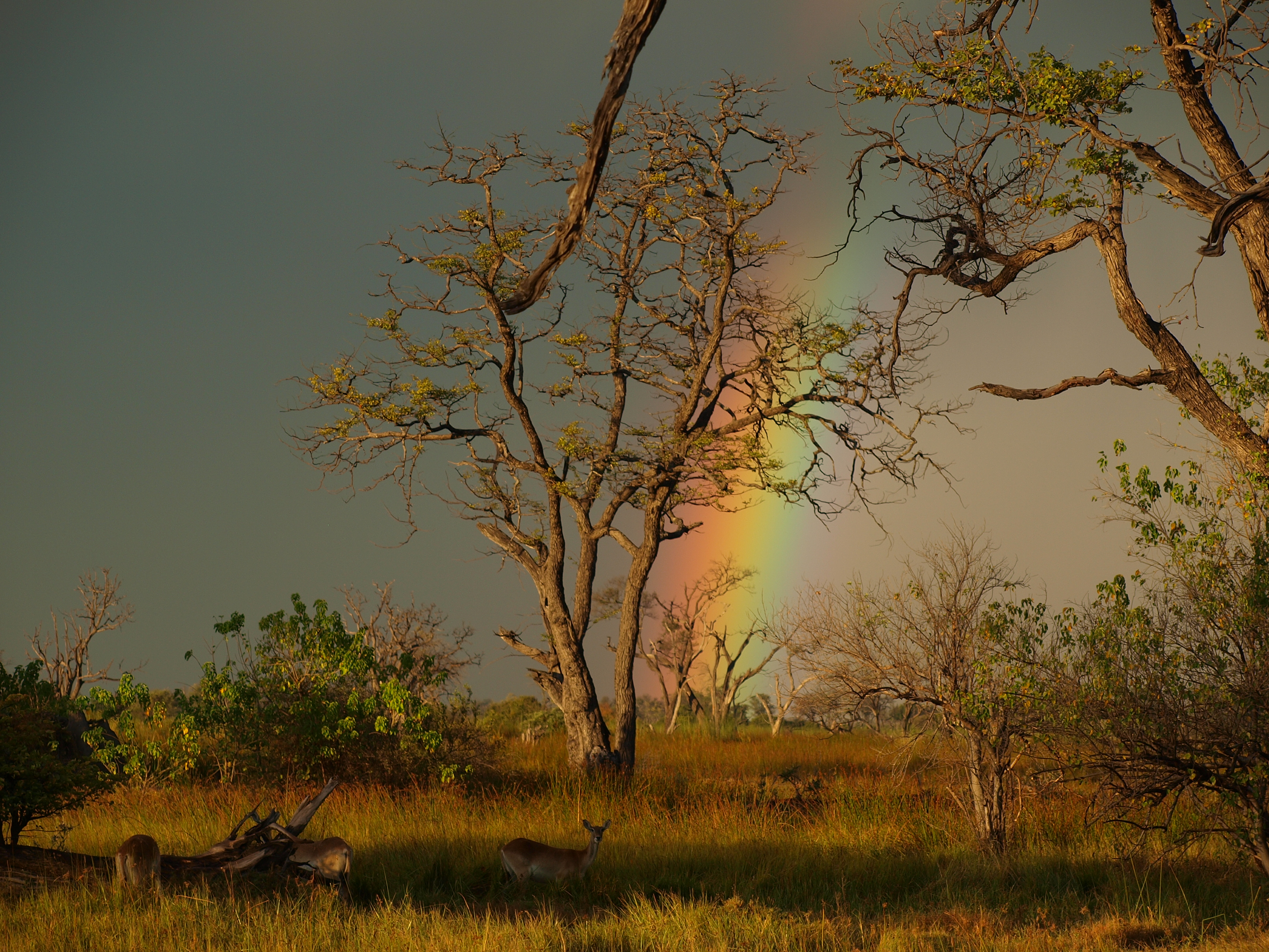 Okavangodelta Xakanaxa rainy weather